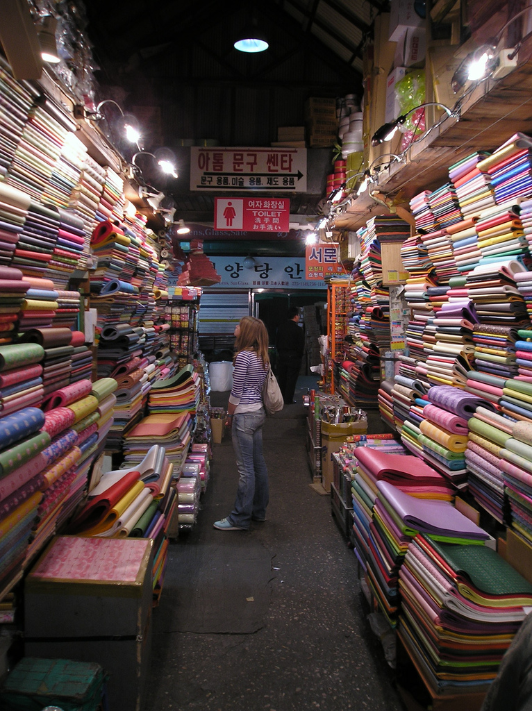 Paper shop in Seoul, Korea